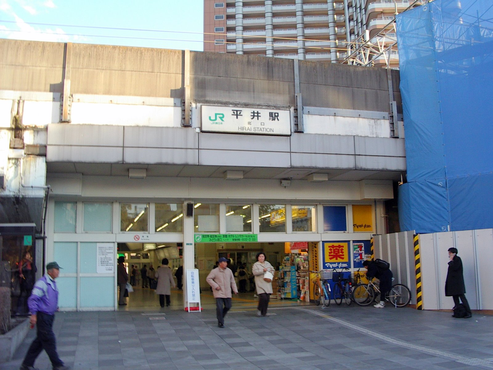 North exit of Hirai Station, Tokyo